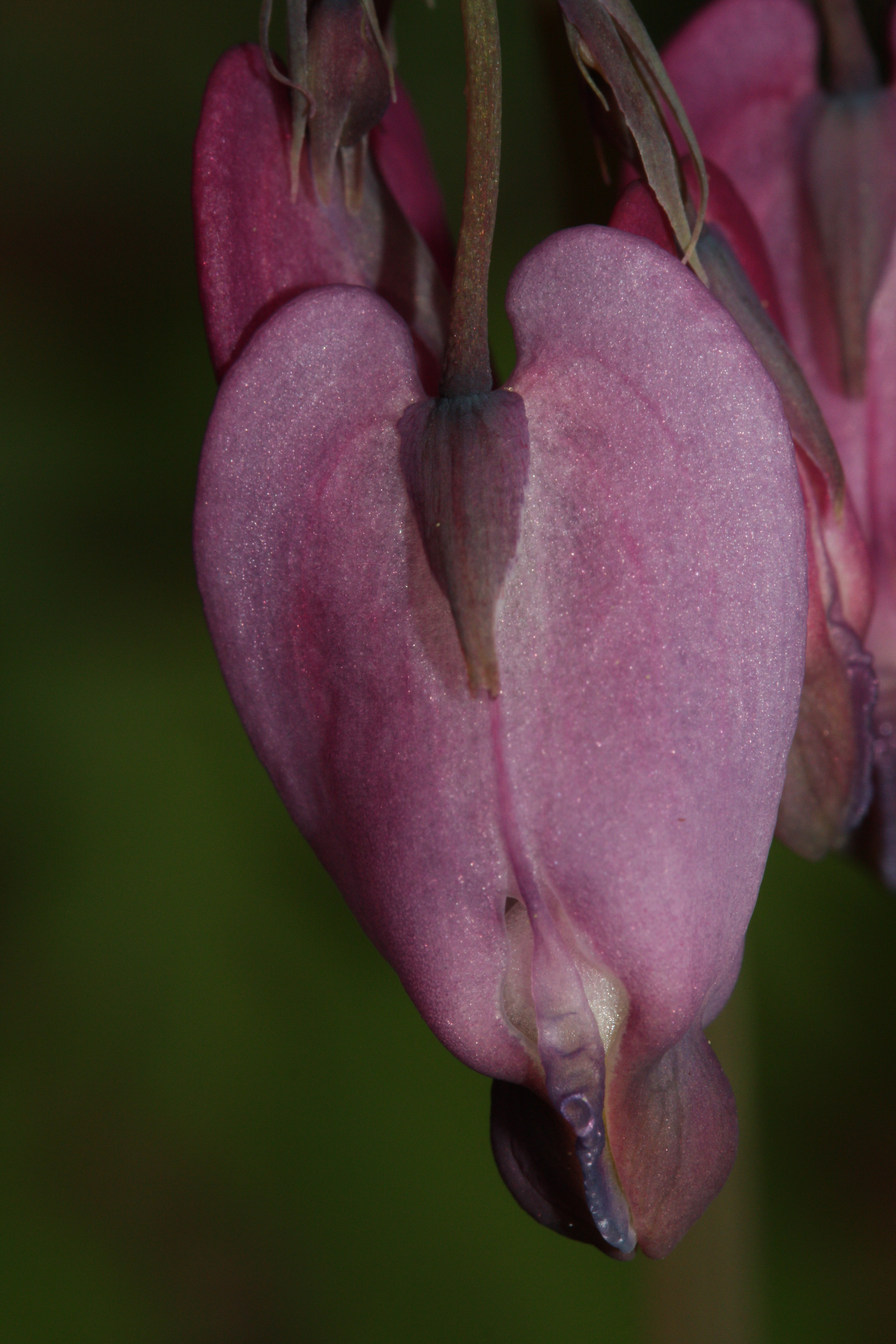 Pacific Bleeding Heart; auth. (Haw.) Walp.